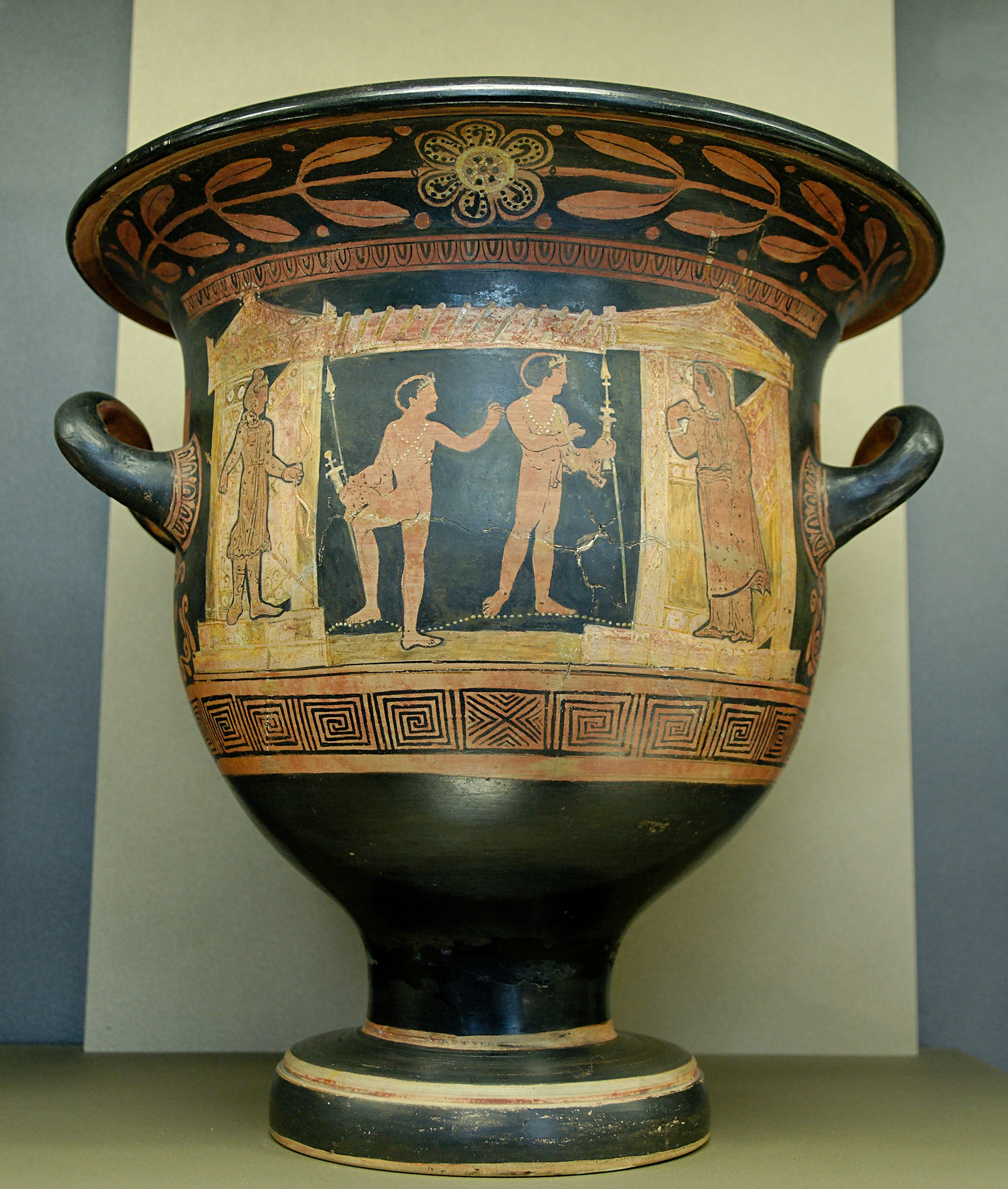 Orestes and Pylades in Tauris. Campanian red-figure krater, ca. 330 BC–320 BC. From Italy.